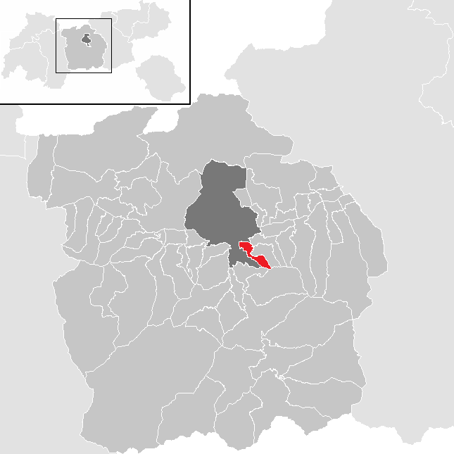 District Innsbruck Land